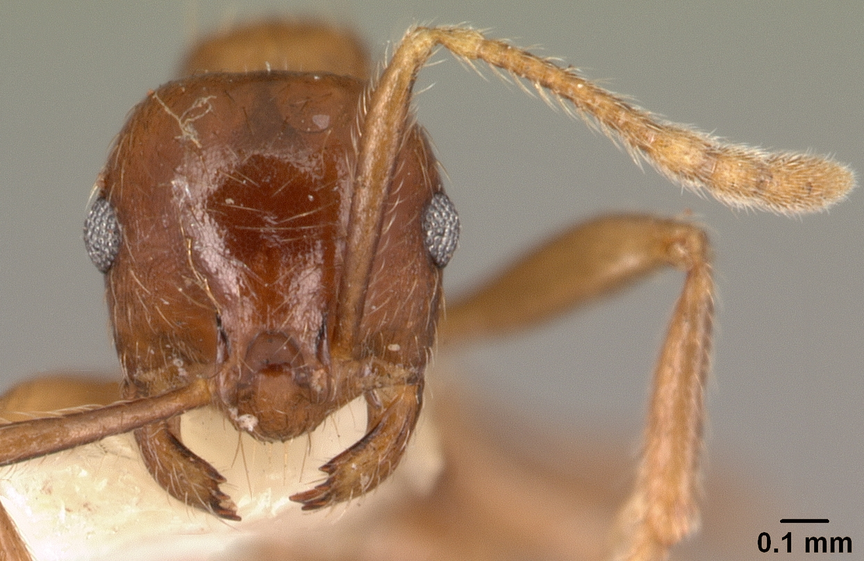 Head view of ant Kartidris matertera specimen casent0101965.